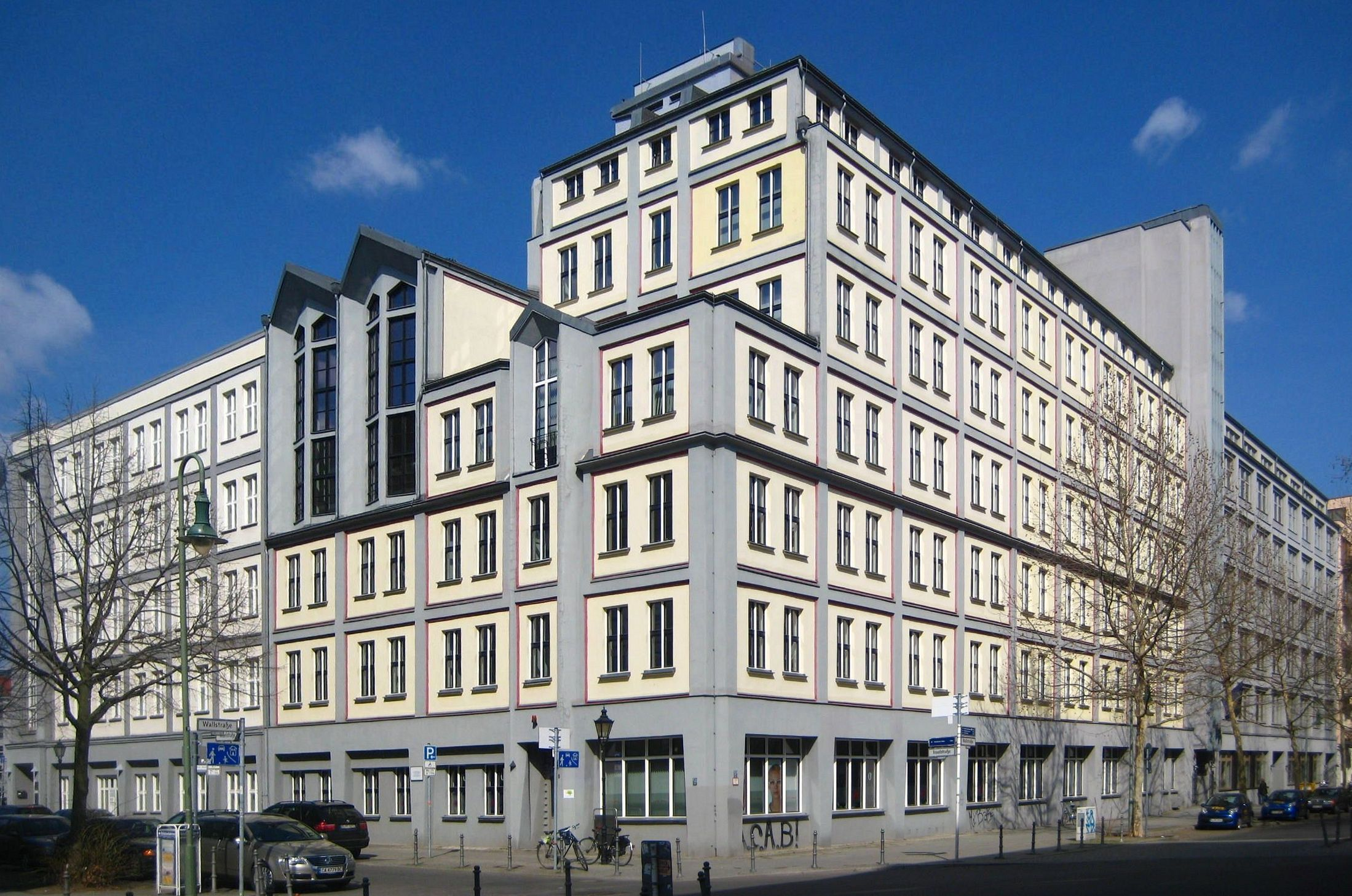 The Hermann Schlimme House at Wallstraße No. 61-65, corner of Inselstraße (on the left) in Berlin-Mitte. The main building was constructed from 1922 to 1923 to a design by Max Taut and Franz Hoffmann as office building for the General Federation of German Trade Unions. It was one of the first modern buildings which used its frame construction as main design component. From 1930 to 1932, the building was expanded by architect Walter Würzbach along Wallstraße and Märkisches Ufer. In 1933, it was taken over by the National Socialists for their German Labor Front. From 1945 to 1990, it was seat of the Berlin branch of the Free German Trade Union Federation (FDGB). The building is now used as office and commercial building by several companies. It is also seat of the embassy of the Republic of Kosovo. The building has been designated as historic landmark.